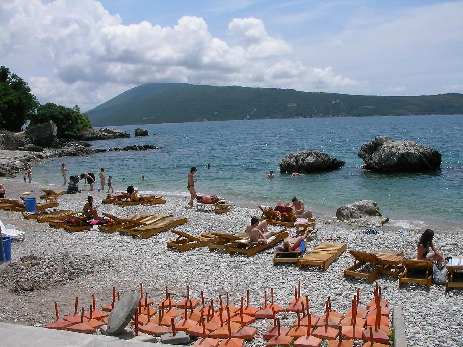 The town "beach" of Herceg Novi, Montenegro